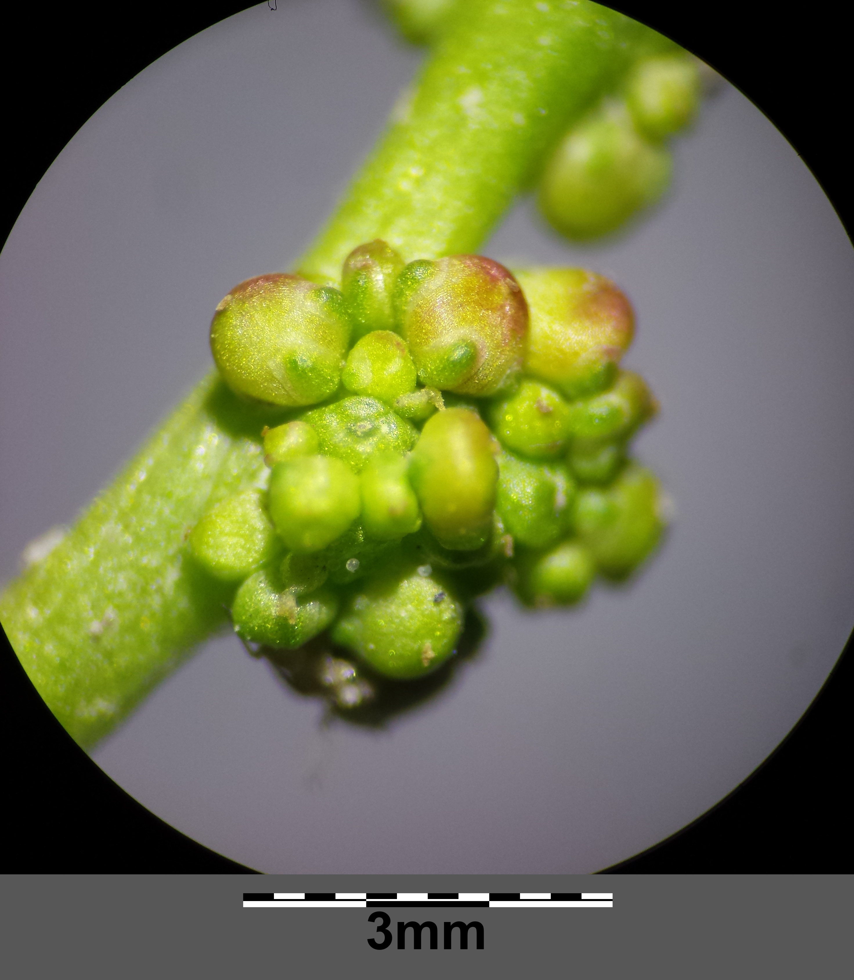 Infructescence Taxonym: Chenopodium glaucum ss Fischer et al. EfÖLS 2008 ISBN 978-3-85474-187-9 Location: Nordmanngasse, Donaufeld, Vienna-Floridsdorf - ca. 160 m a.s.l. Habitat: humid field